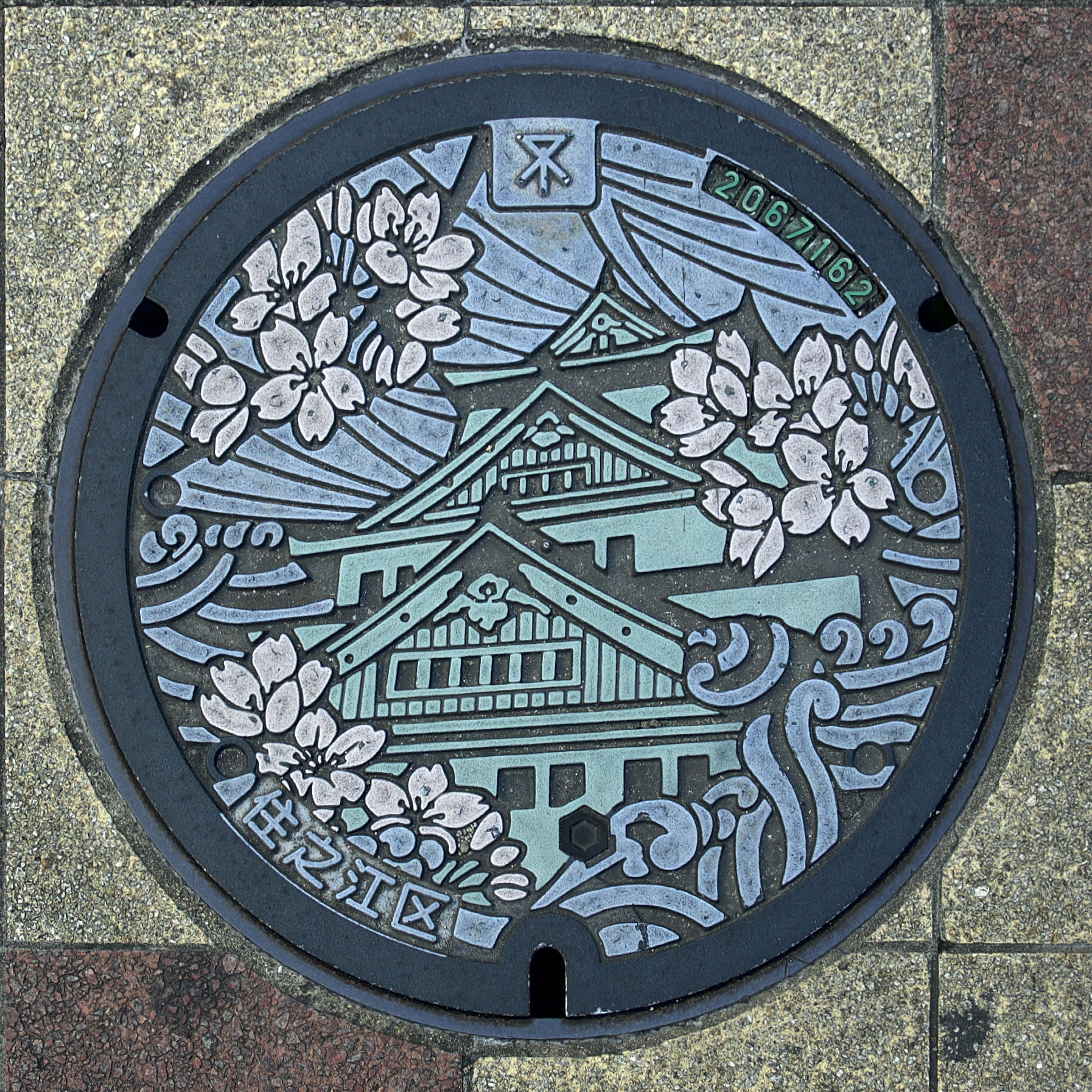 Picture of manhole cover taken in Anryūmachi.